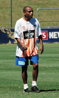 Henrique Silva at Queensland Roar training